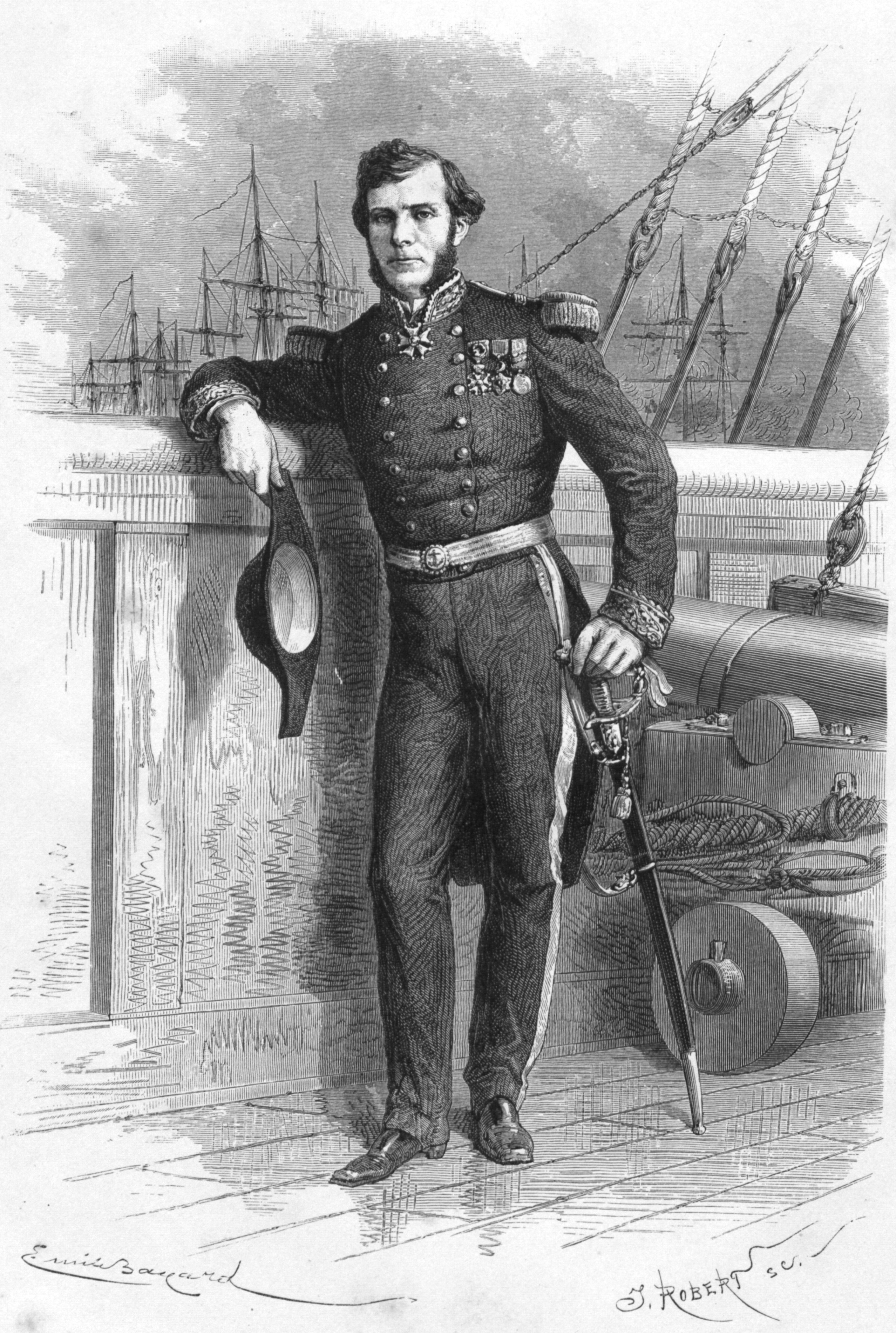 Ernest Doudart de Lagrée. Illustration from "Voyage d'exploration en Indo-Chine (1873, Francis Garnier)".